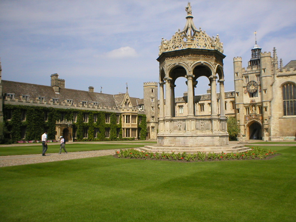 Did a tour of Trinity College. Really beautiful grounds. Founded in 1546, it is by far the wealthiest landowner in the United Kingdom apart from the Crown and Church. See more information at .